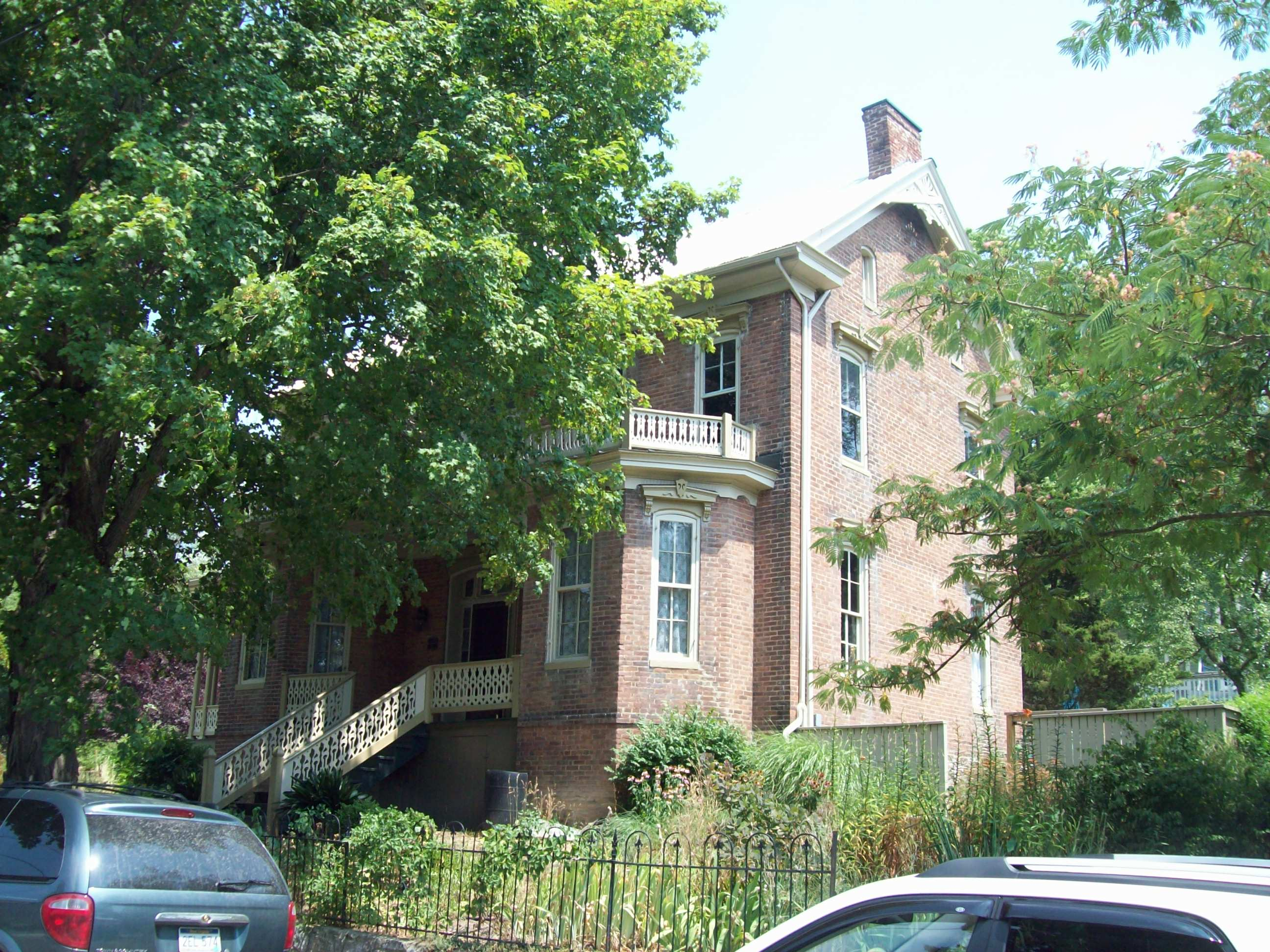 T. H. B. Dawson House, Berkeley Springs, WV, July 2011